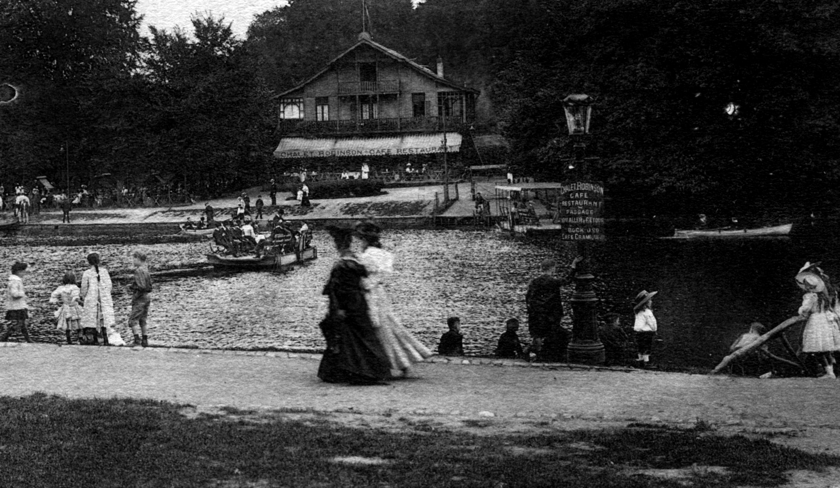 Brussels,in the middle of the Bois de la Cambre,the isle of the Chalet Robinson,postcard 1900